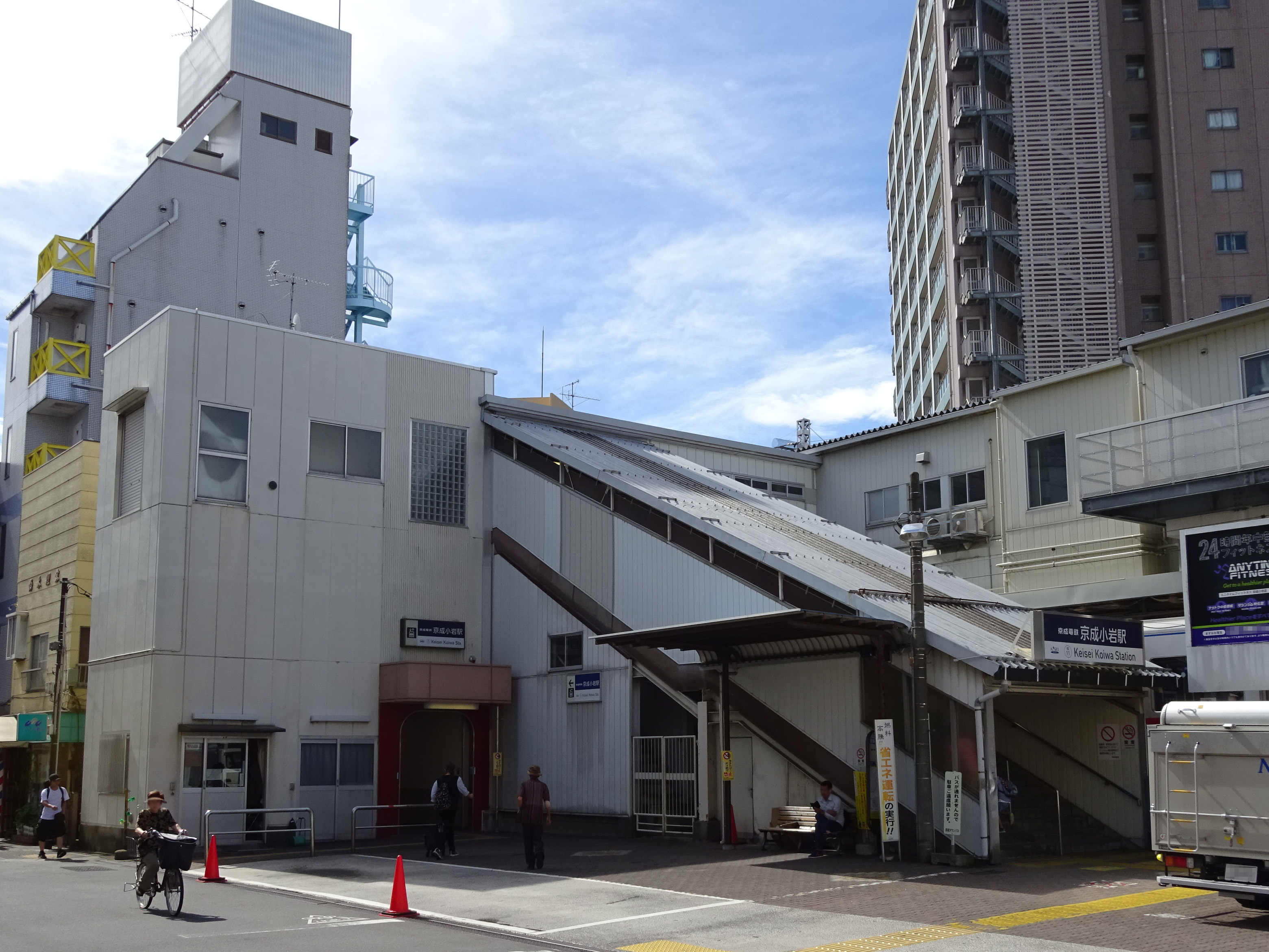 North entrance of Keisei Koiwa Station